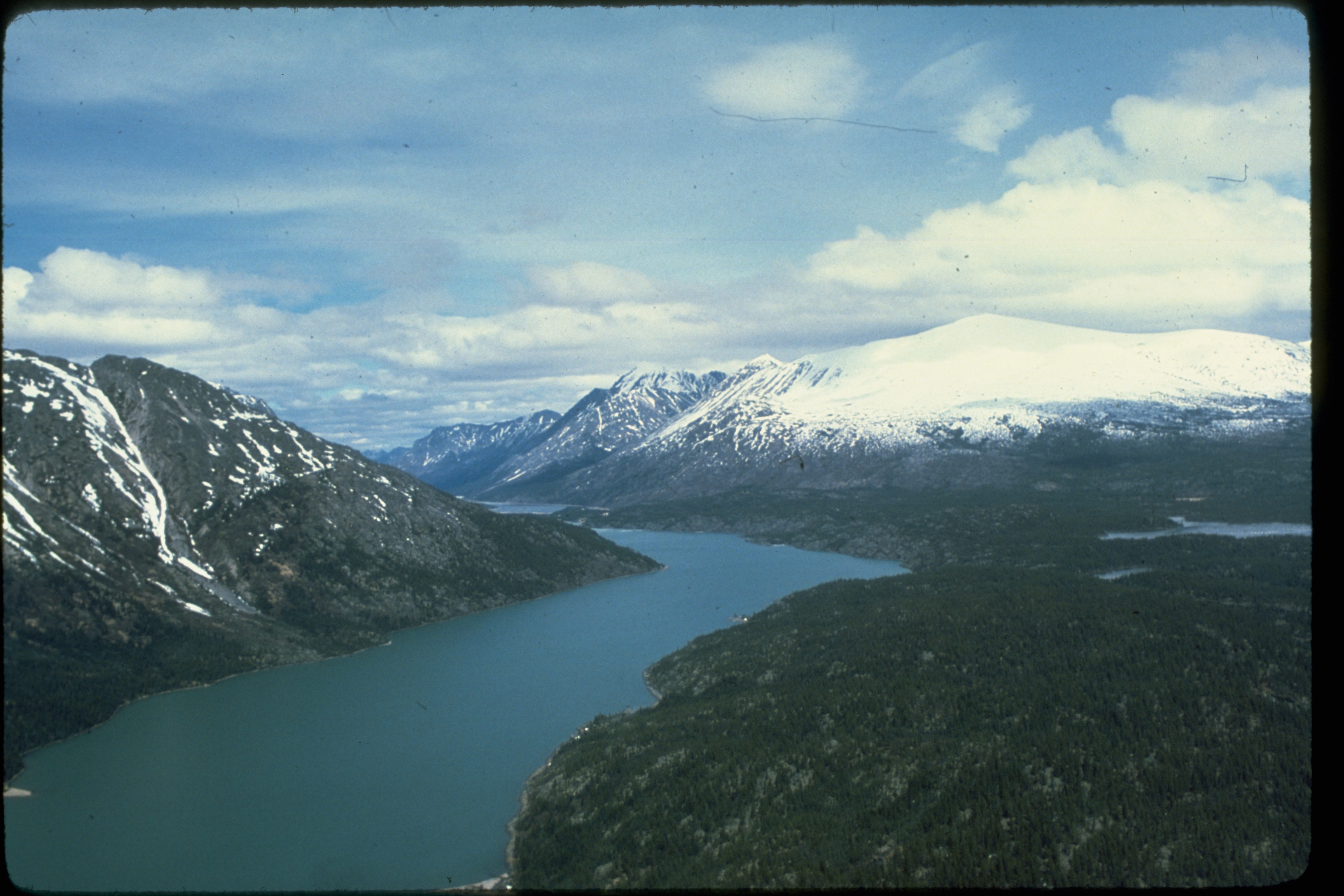 Here, the beautiful Stehekin Valley, with a portion of fjordlike Lake Chelan, adjoins North Cascades National Park.